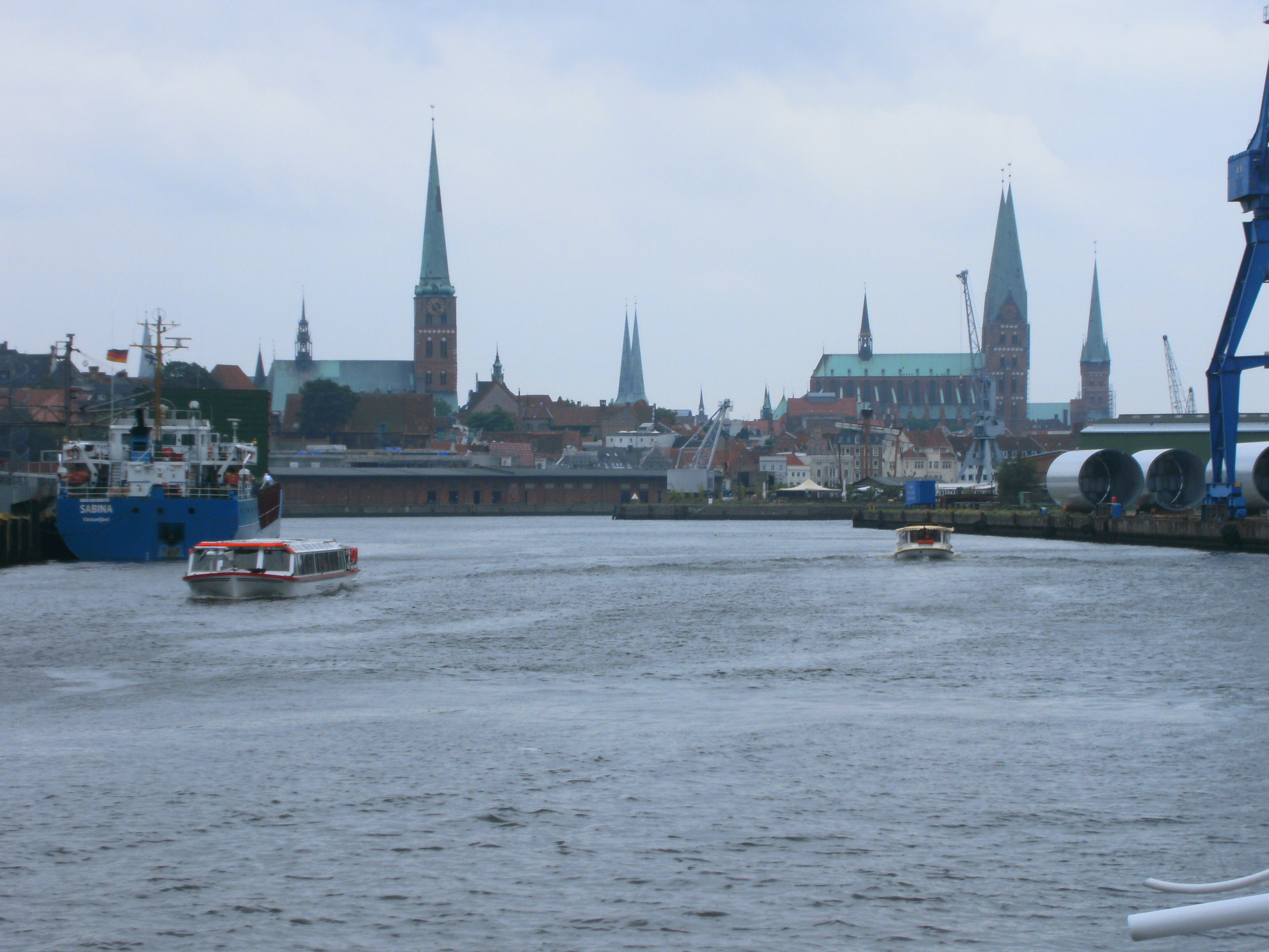 View on Lübeck from North.